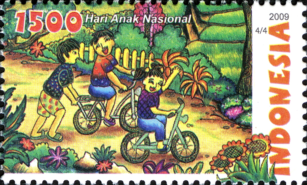 Stamps of Indonesia